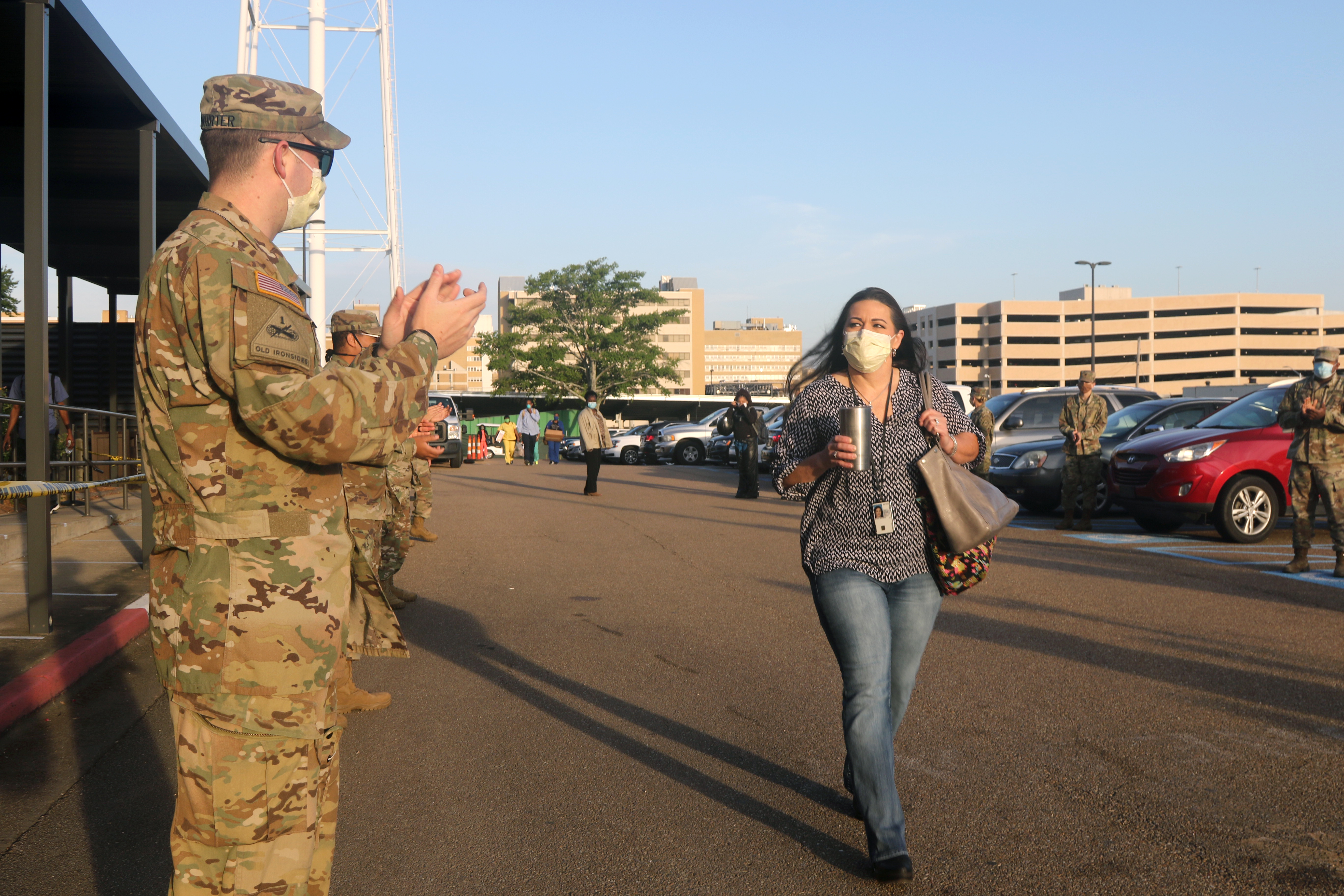 Soldiers and Airmen of the Mississippi National Guard gather at the employee entrance to the G.V. (Sonny) Montgomery Veteran Affairs Medical Center to honor civilian healthcare workers during National Nurses Week in Jackson, Miss., May 12, 2020. On the last day of Nurse’s week and the anniversary of G.V. (Sonny) Montgomery’s passing, Guardsmen cheered for VA employees as they entered and exited the hospital during morning shift change and thanked them for their work during the COVID-19 pandemic. (U.S. Army National Guard photo by Spc. Christopher M. Shannon II)